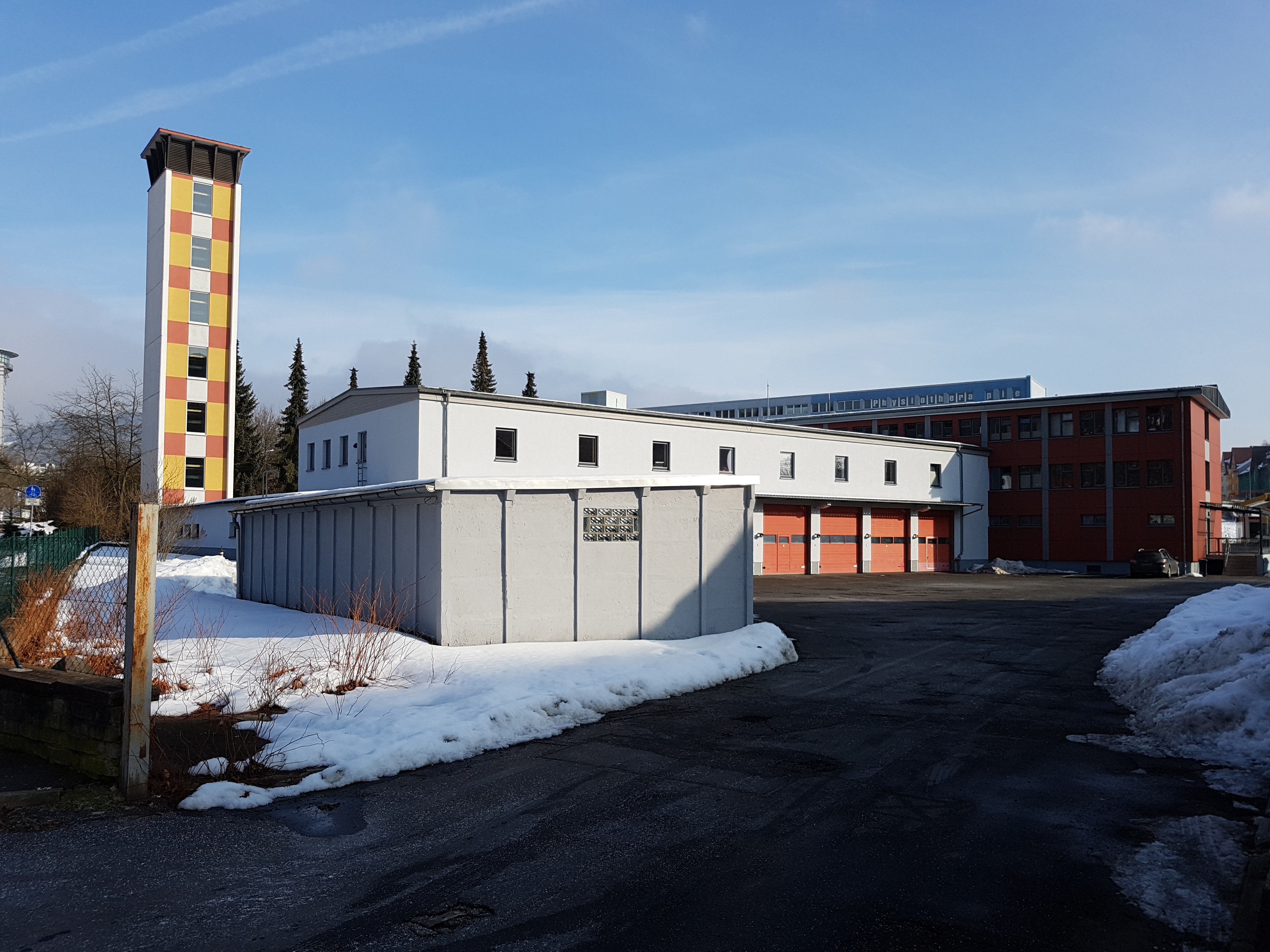 Fire Station of the Fire Department Suhl-Zentrum.